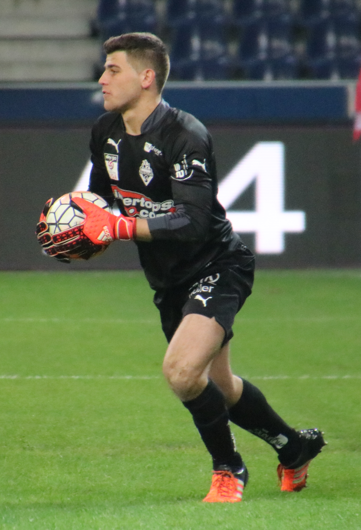 league match Austria 2nd league